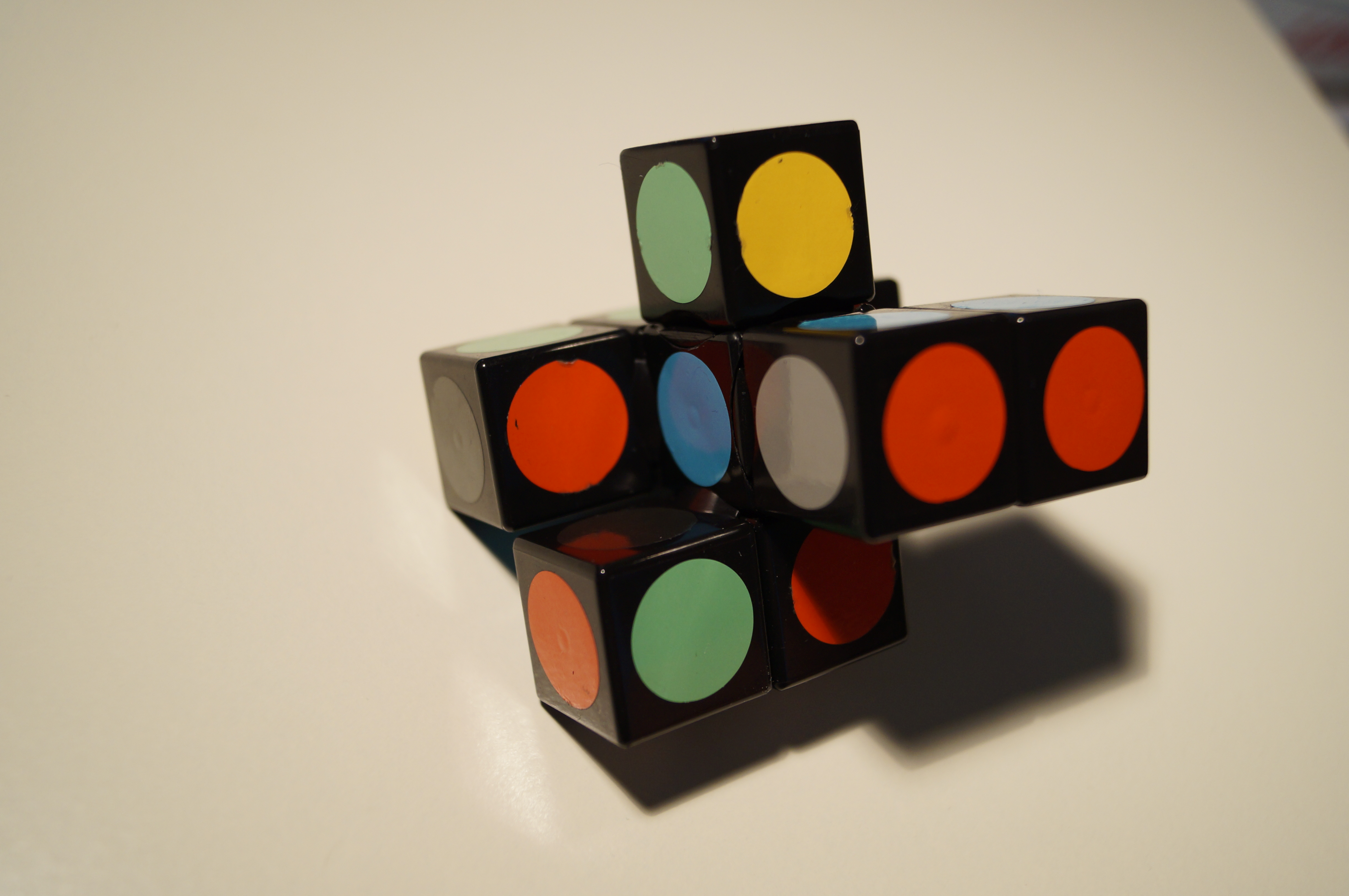 The scrambled Super Floppy Cube